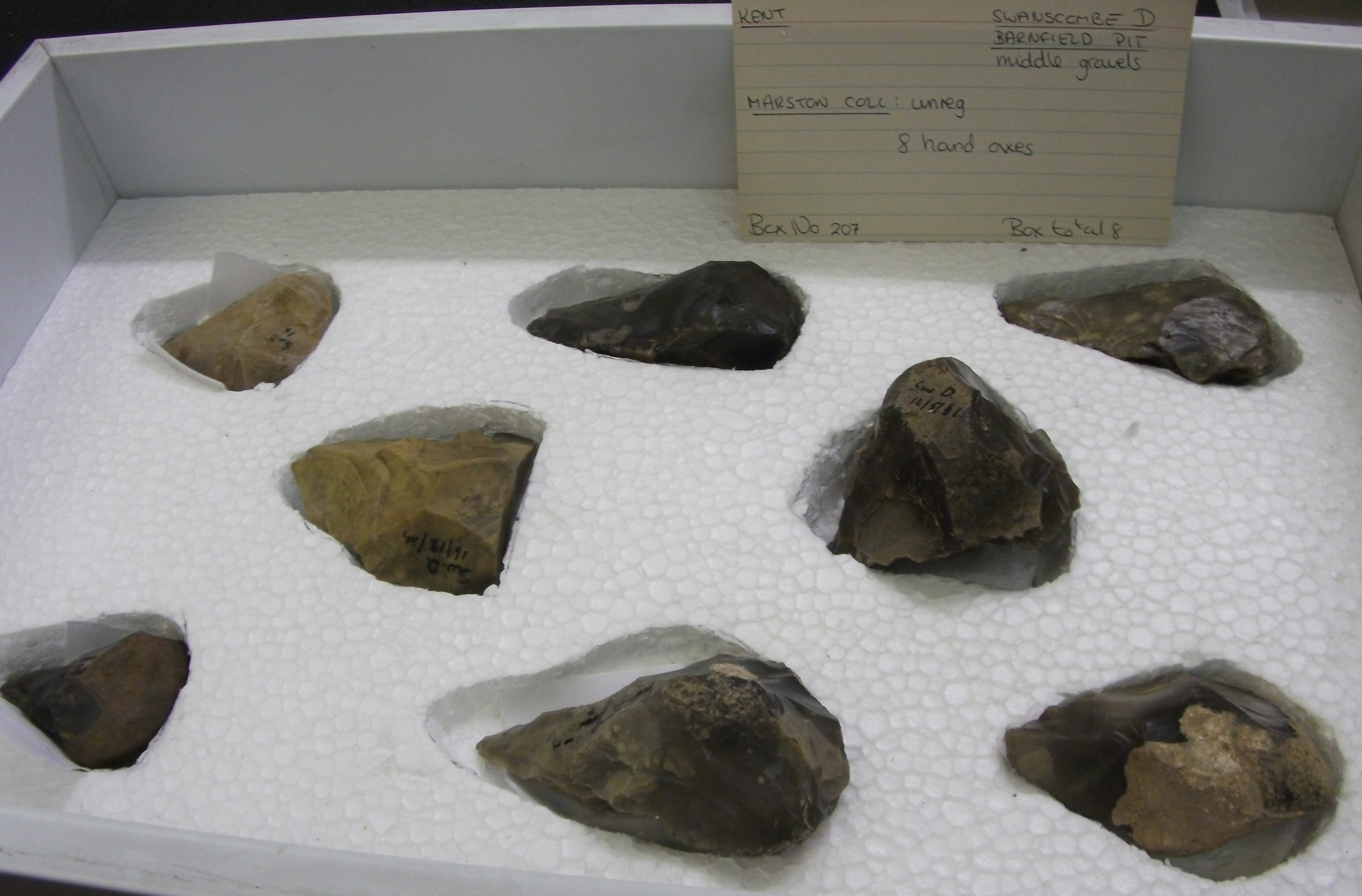 BM Ice Age Art event, October 2011